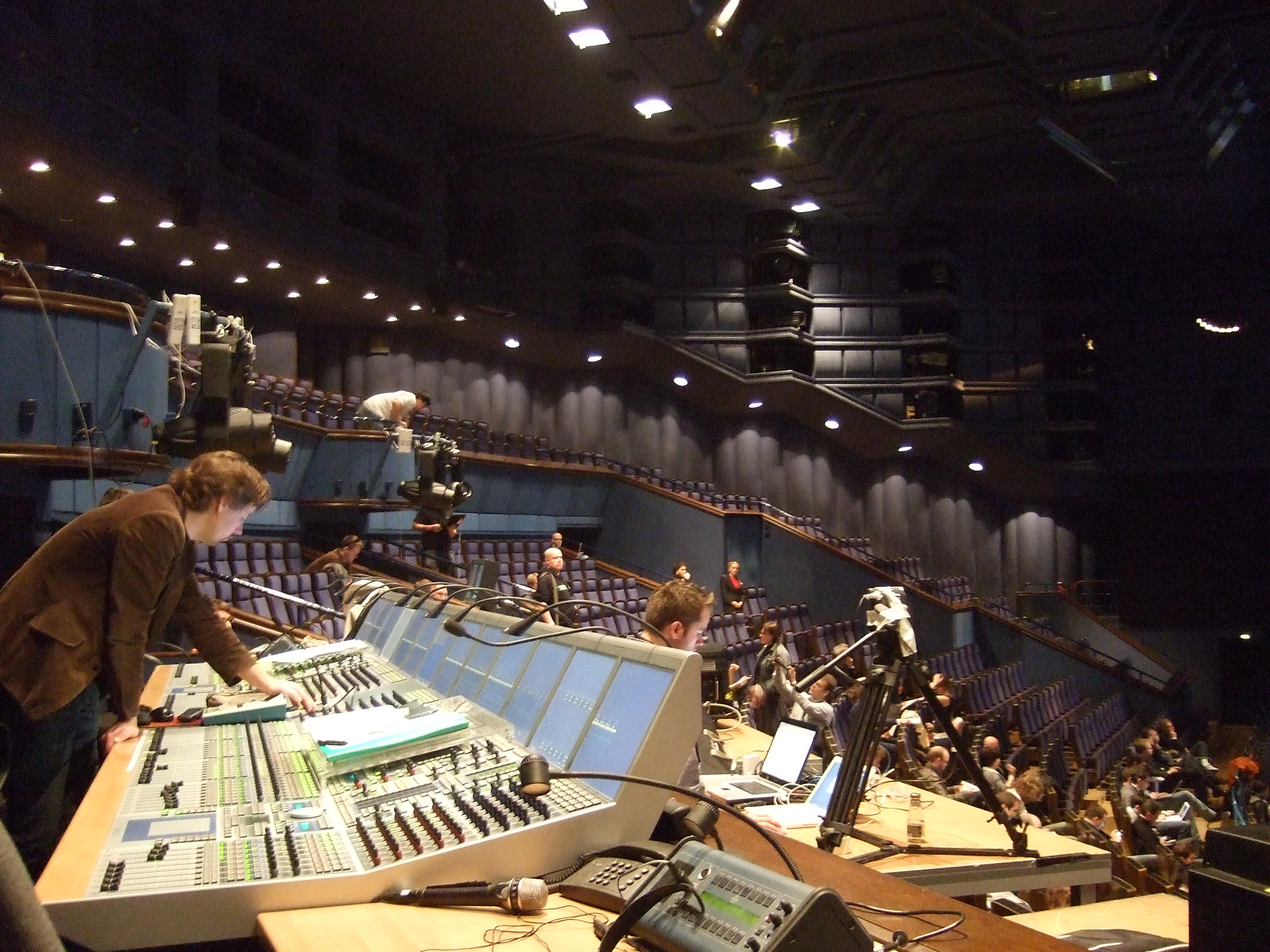 Mixing desk in the main hall of the Friedirchstadtpalast Berlin, Germany during the re:publica 2009.